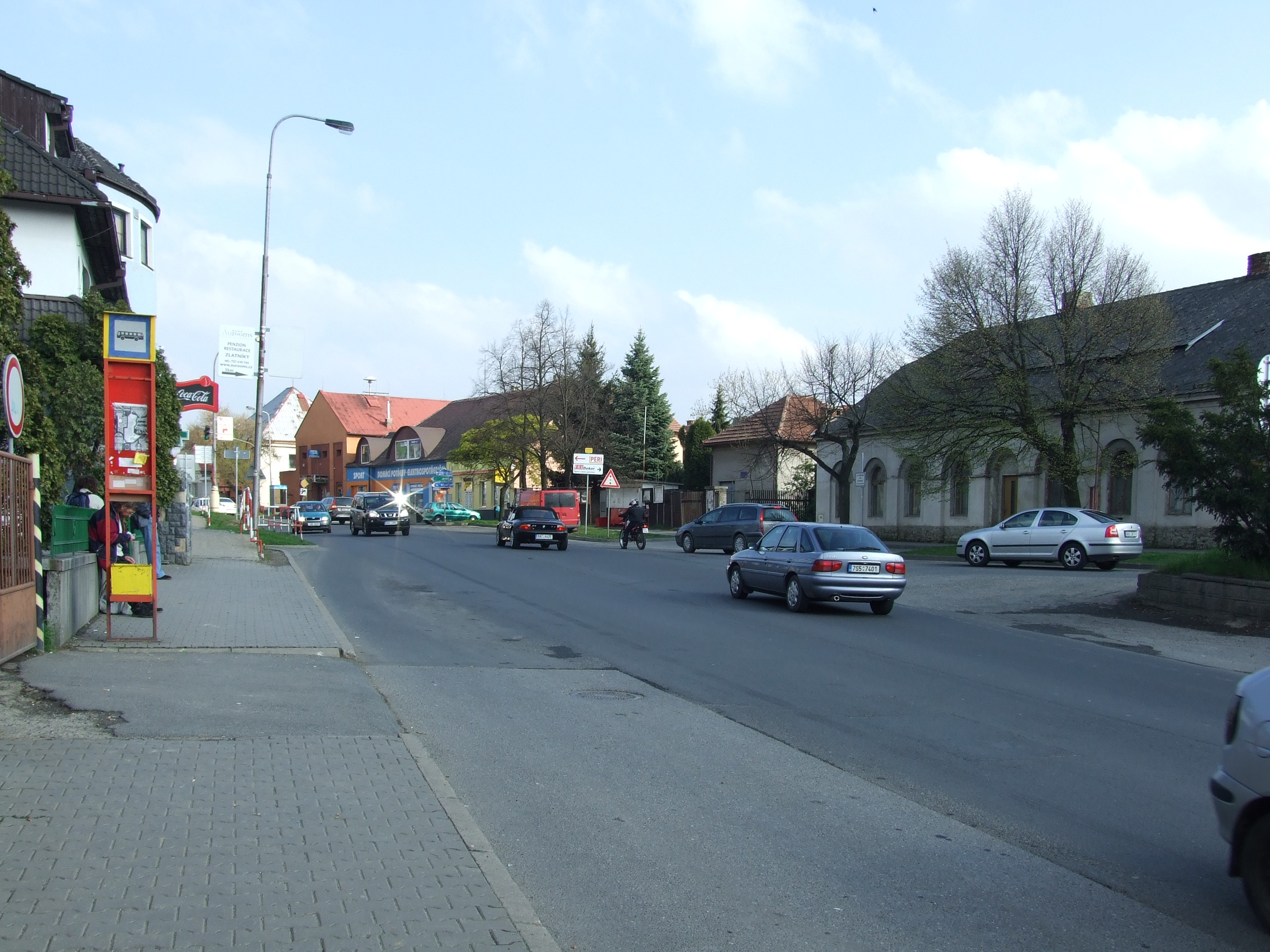 Jesenice village near Prague